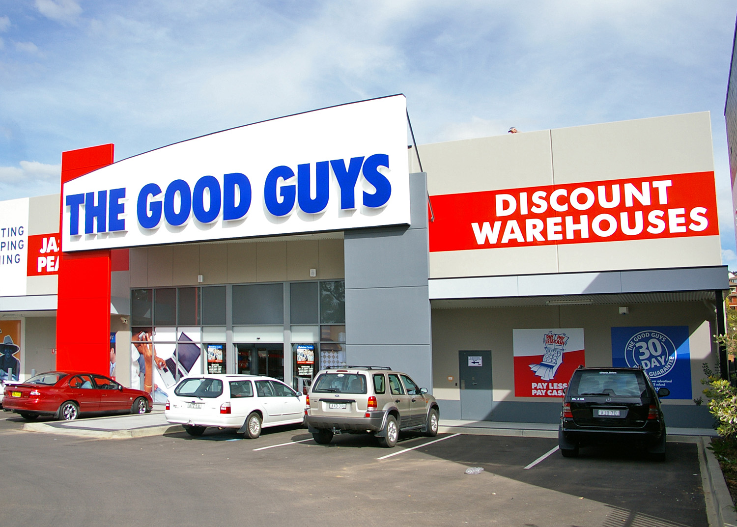 The Good Guys Wagga Wagga Store